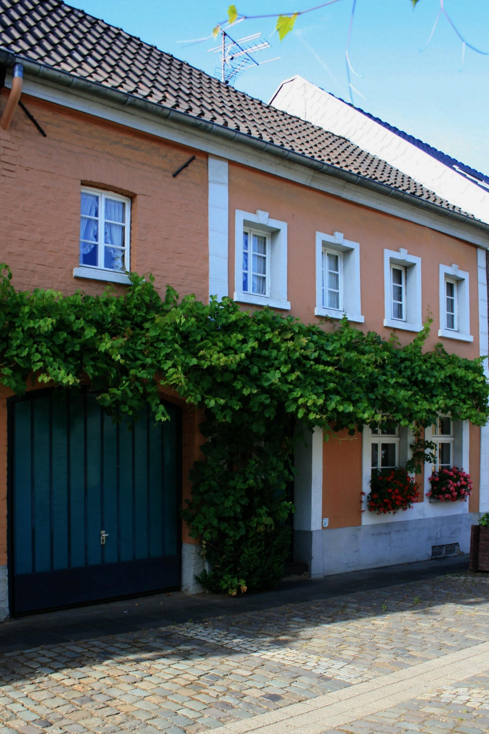 Cultural heritage monument No. St 002 in Mönchengladbach